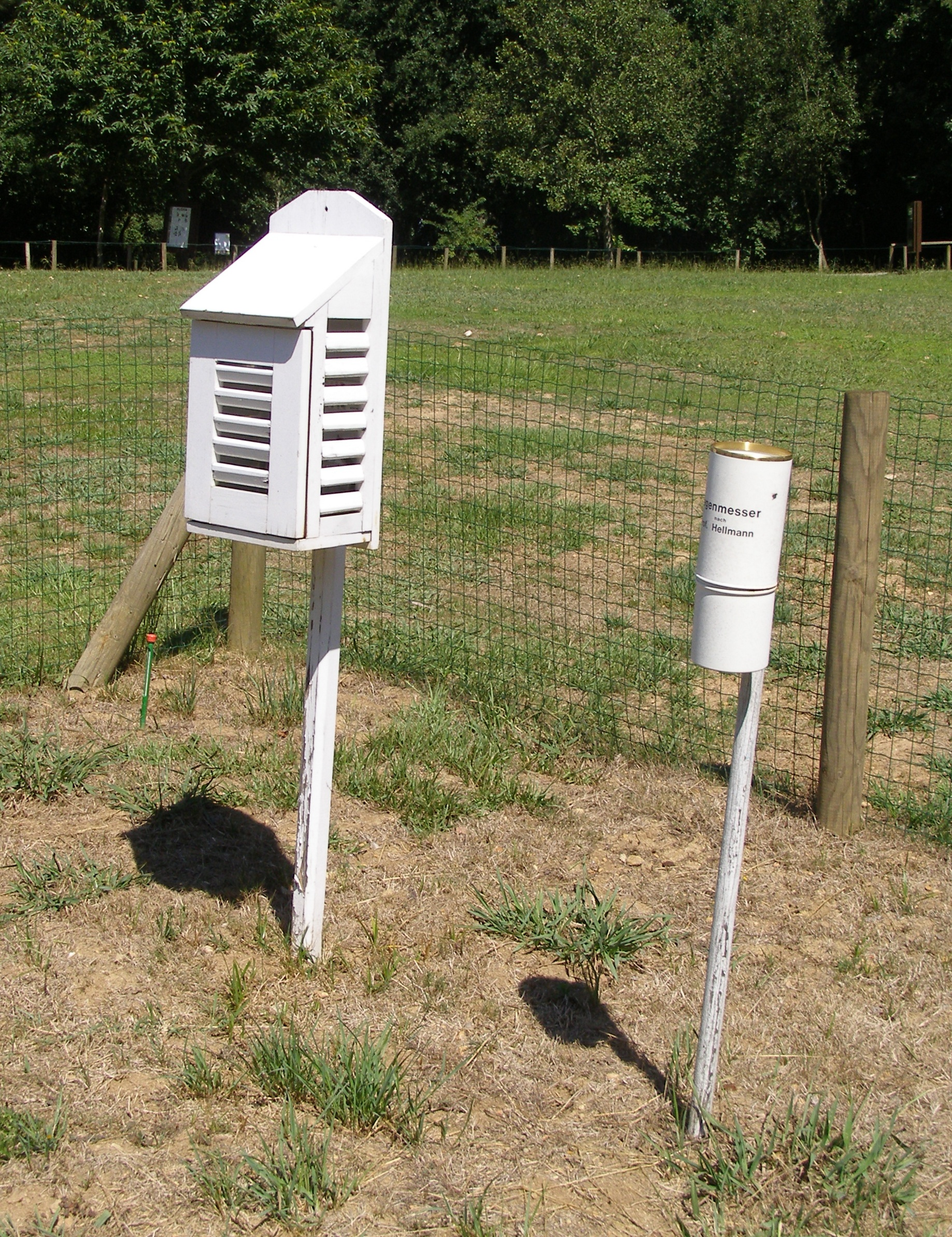 weather station